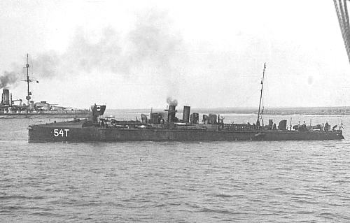 Austro-hungarian torpedo boat Tb54T (former "Wal); Kaiman class.